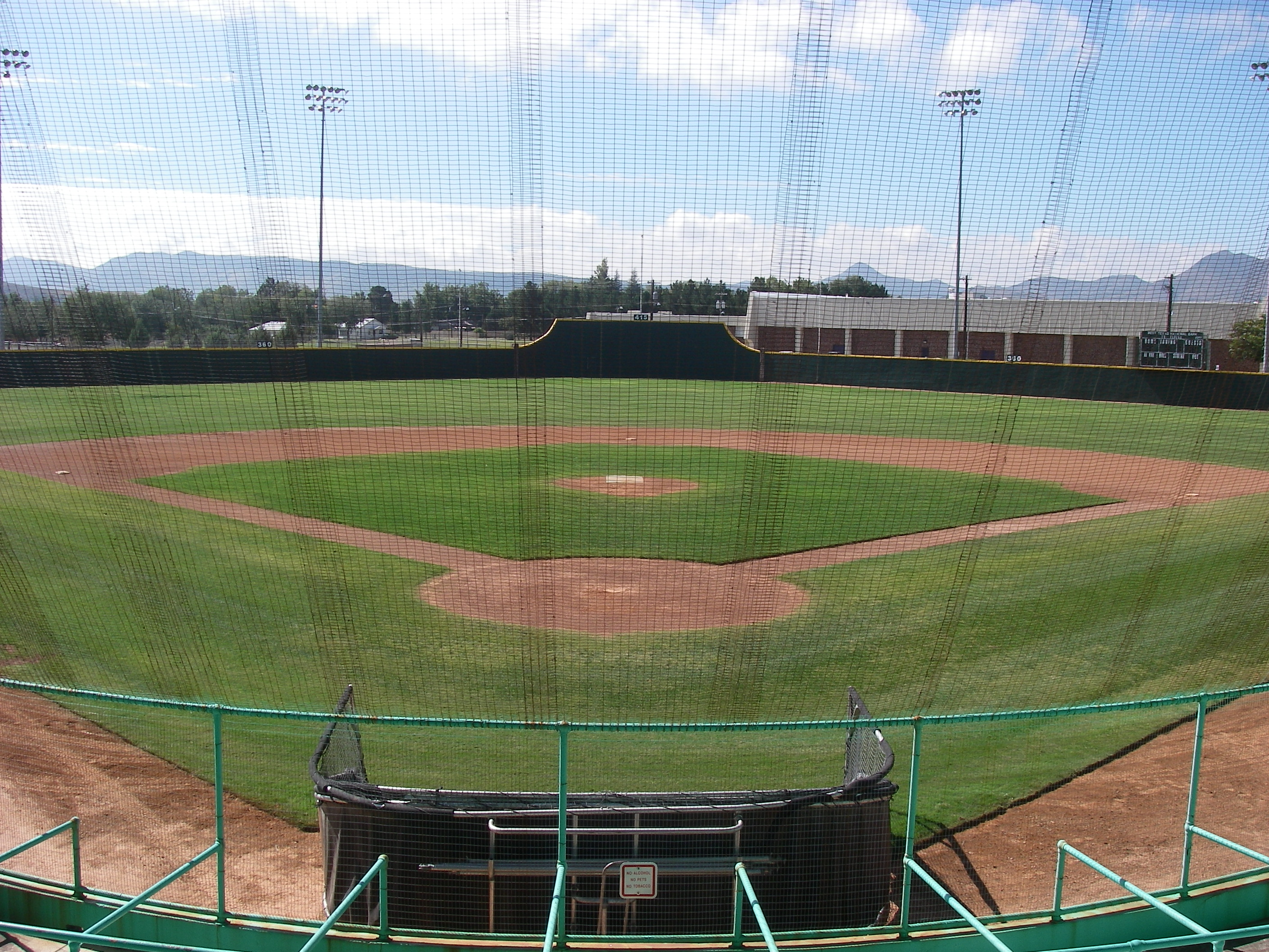 Photo of Kokernot Field of Alpine, Texas taken from the bleachers (October 13, 2008)